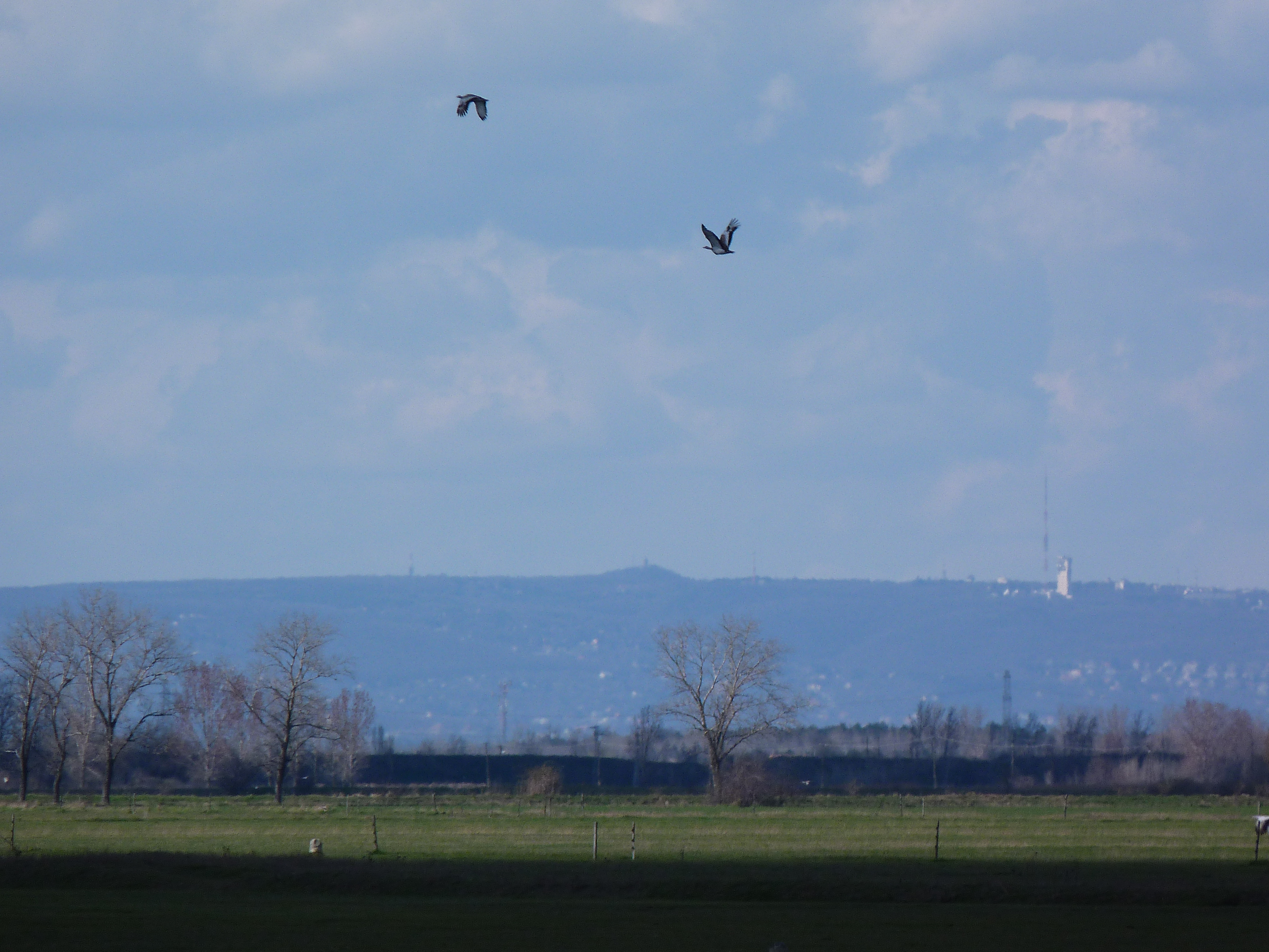 Live on the 13th of April, 2013. Apajpuszta.Kiskunsági Nemzeti Park. A felvételek 2013. Április 13 –án készültek Apajpusztán. Kiskunsági Puszta. Bács-Kiskun megye. A Duna-Tisza közén, Kunszentmiklós és Szabadszállás között fekvő területen - Nagyállásnál - régen a Bécs felé induló marhacsordák vártak a hajtásra. Most természetvédelmi központ van rajta.